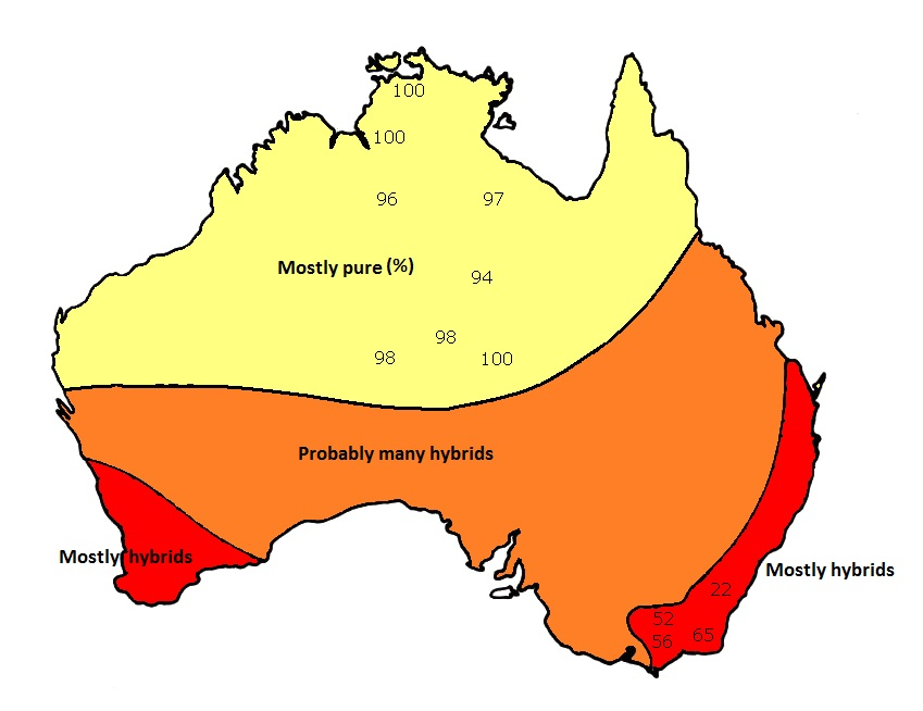 Dingo and hybrid distribution. Adapted from "The Dingo in Australia and Asia" by Laurie Corbett 1995 University of NSW press, Figure 10.1 on page 166.